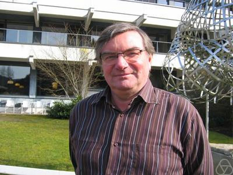 Søren Asmussen, Oberwolfach 2007